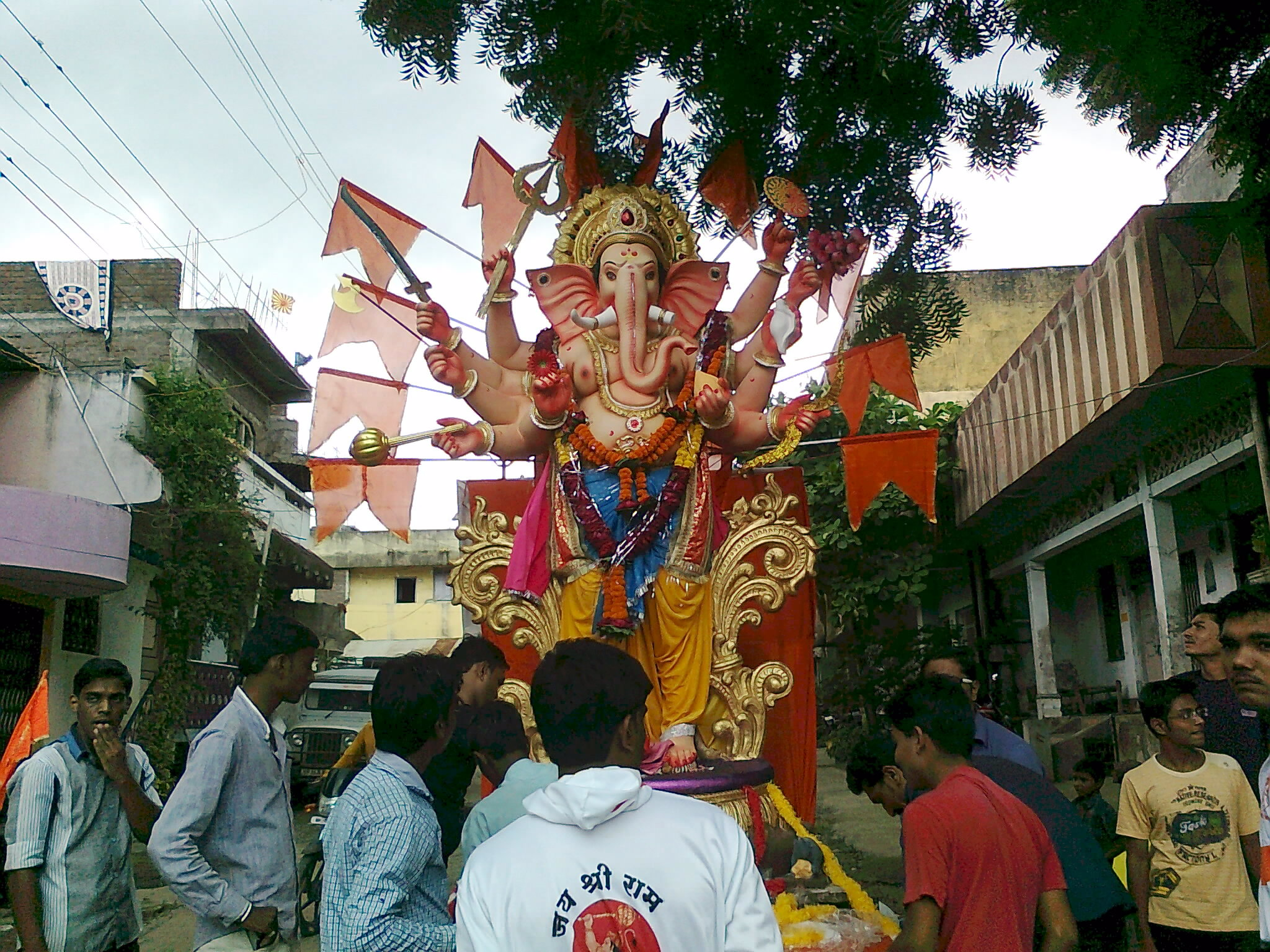 Ganesh Visarjan in Chinawal village of Maharashtra, India